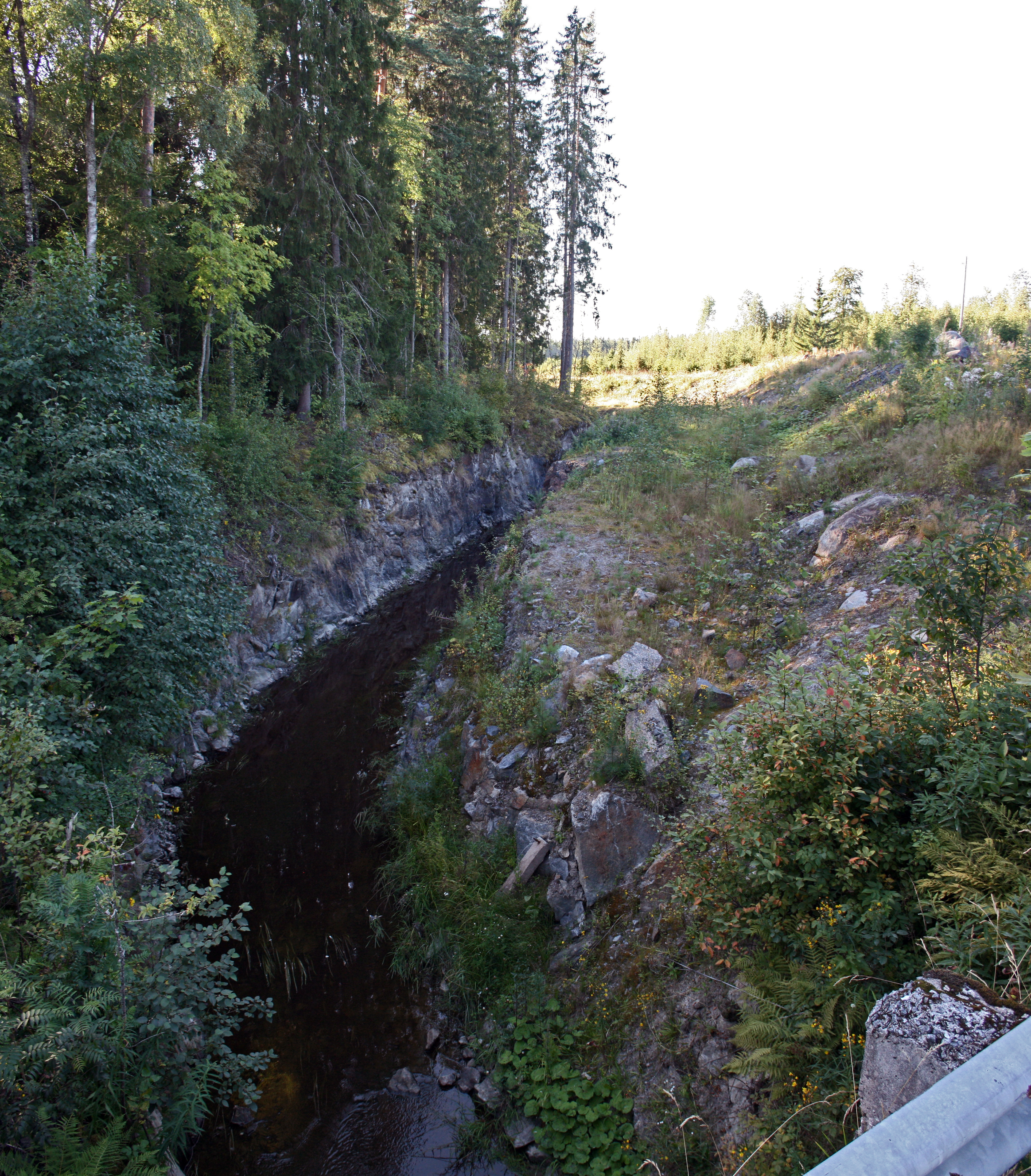 Rautajoki River in Sastamala Finland